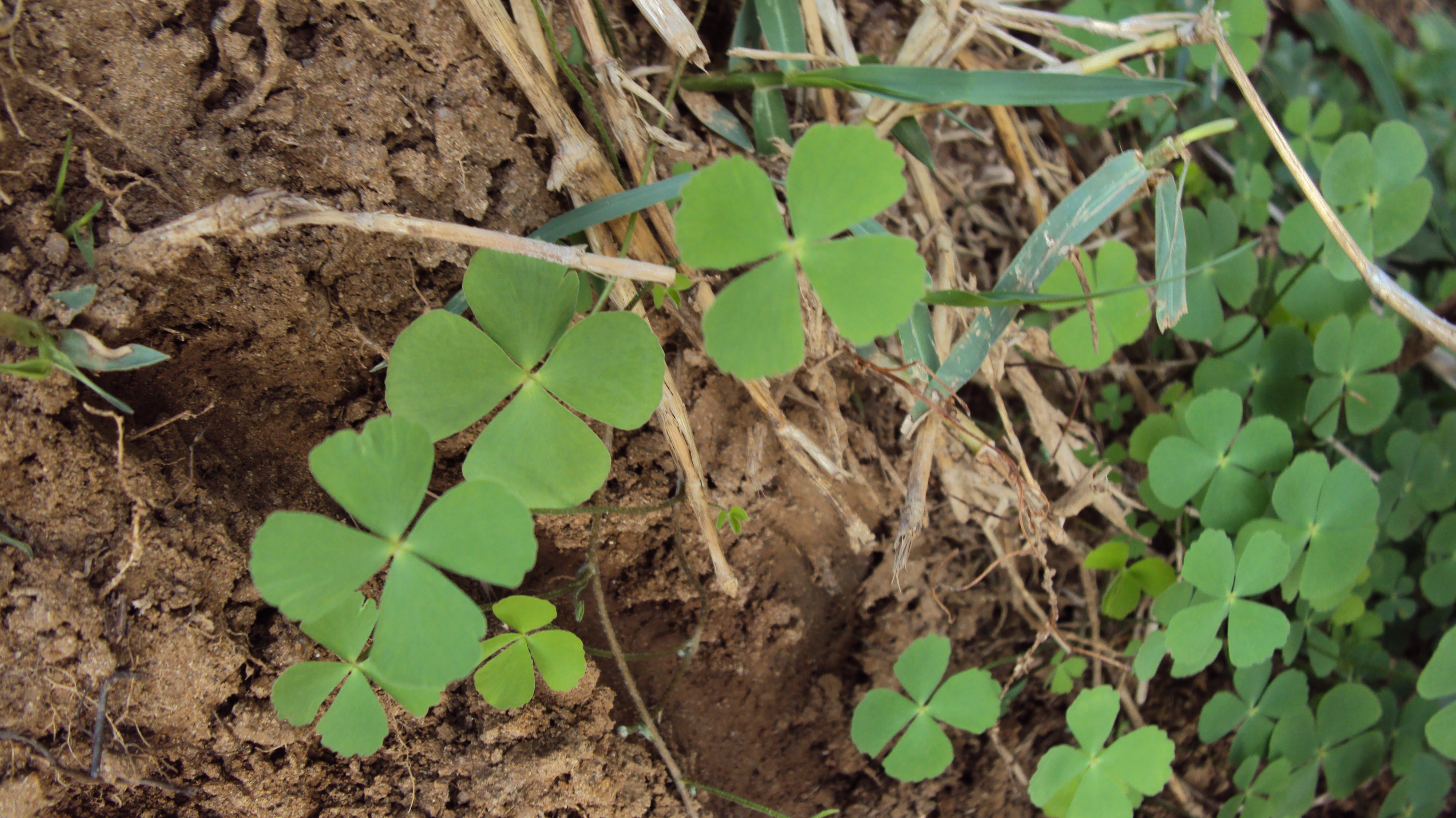 Beautiful leaf in Poovanurichi